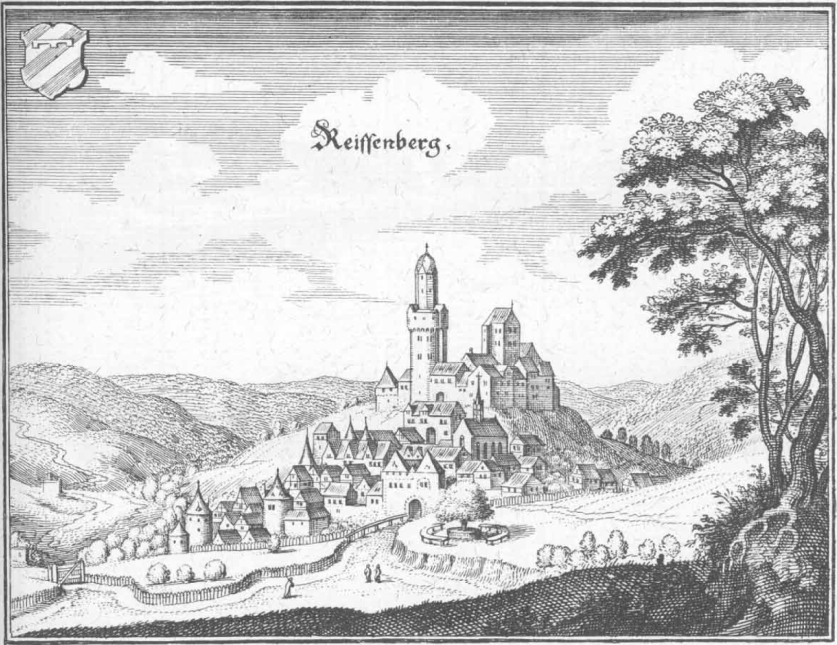 The Reiffenberg castle and village in Germany, view from south-eastern direction. Copper engraving done by Matthäus Merian.